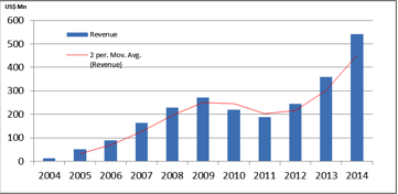 GDI 10 year Revenue Growth Chart